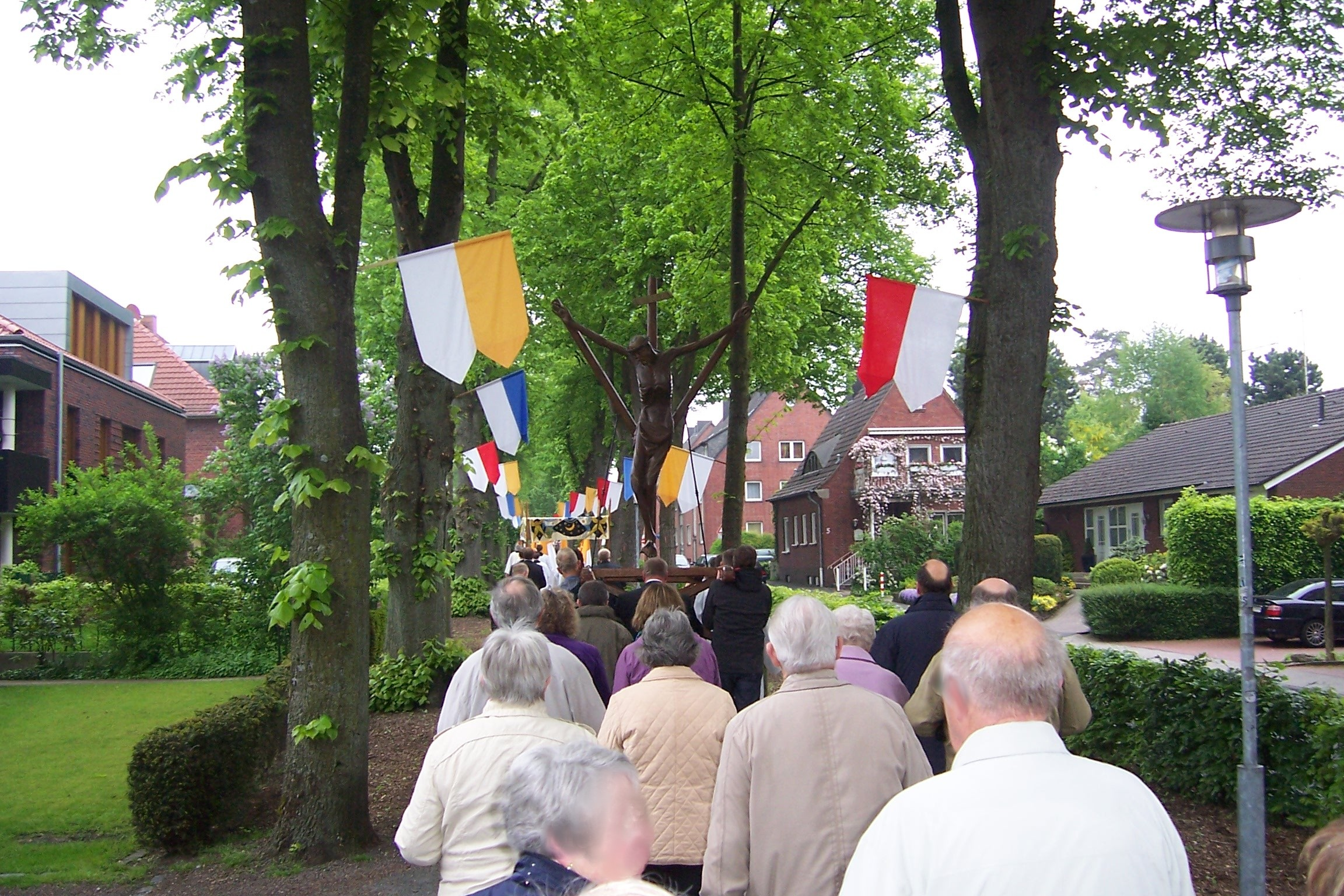 Annual Holy-Cross-Procession on Whitmonday in Coesfeld, NRW, Germany.